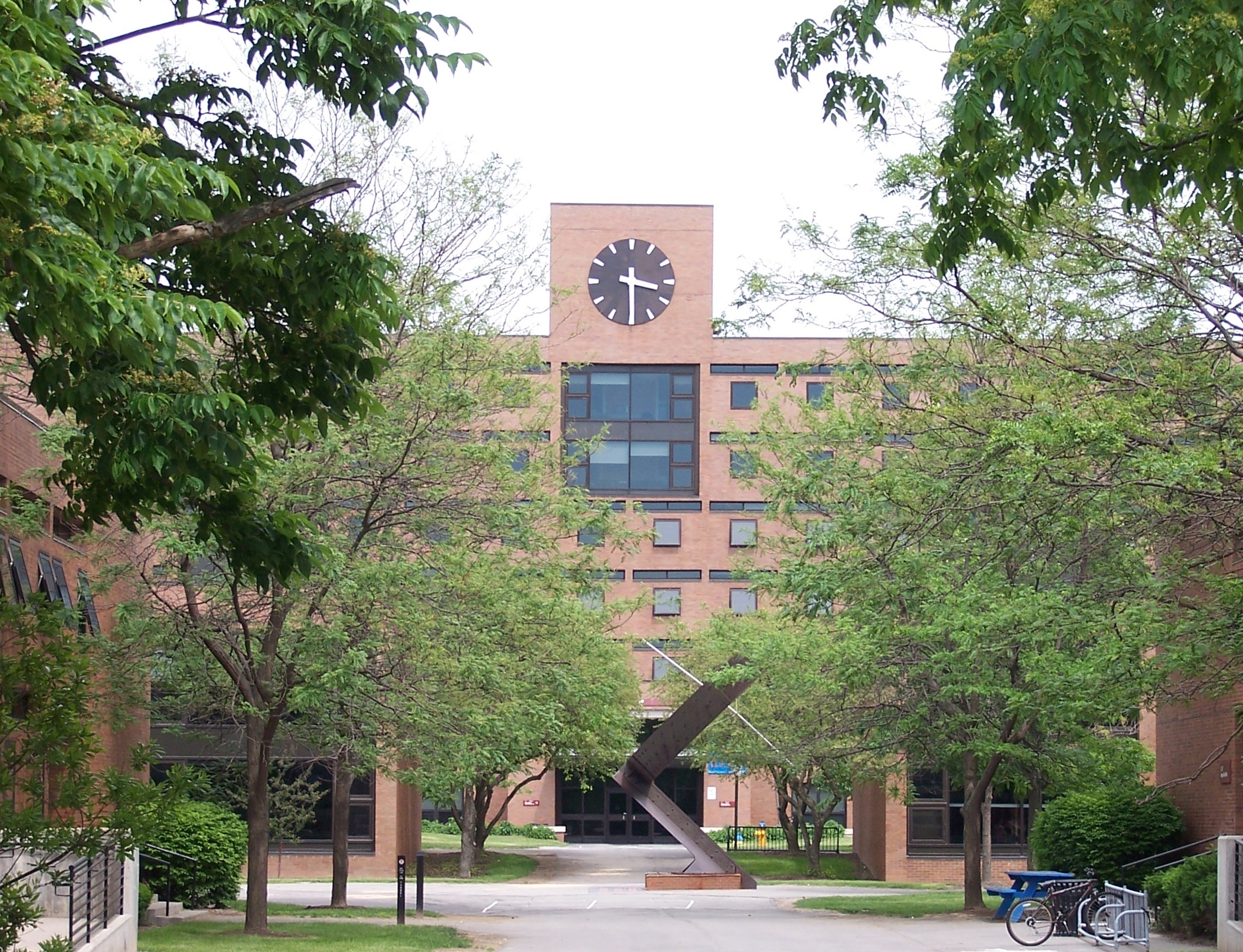 A dormitory, Kate Gleason Hall, on the RIT campus, building 35. The Sundial scupture is in the foreground. Kate Gleason was one of the first female engineers and a successful businesswoman. Her family founded Gleason Works, and the Gleason family are important supporters of RIT. Kate Gleason is also the namesake of RIT's Kate Gleason College of Engineering.